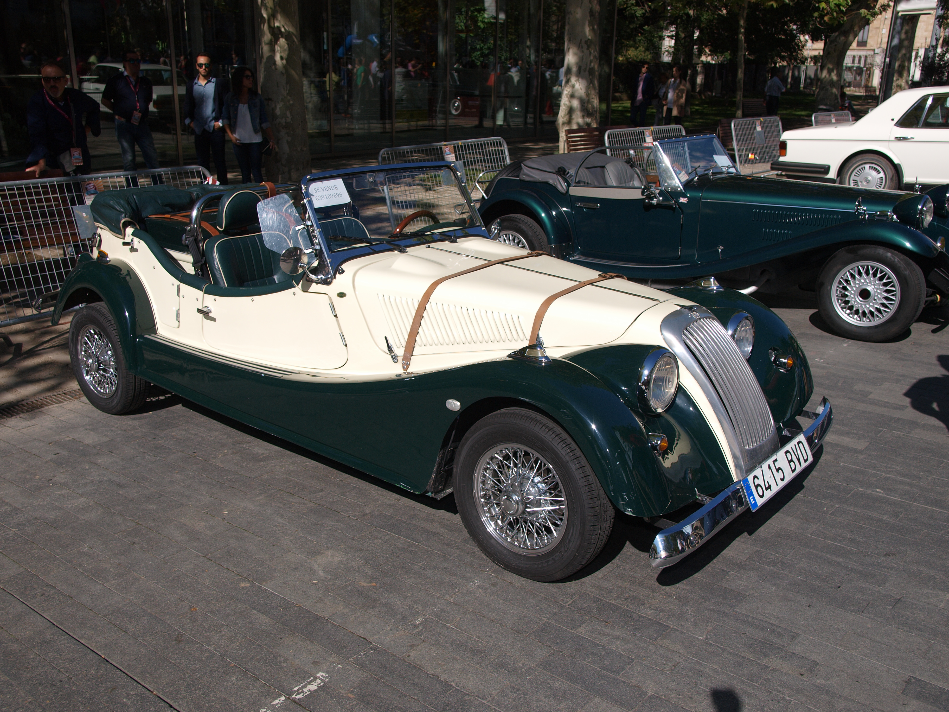 Hurtan T2+2 (1984) at exhibition in the Classic Motor Vintage (Valladolid, Spain, September 2014)